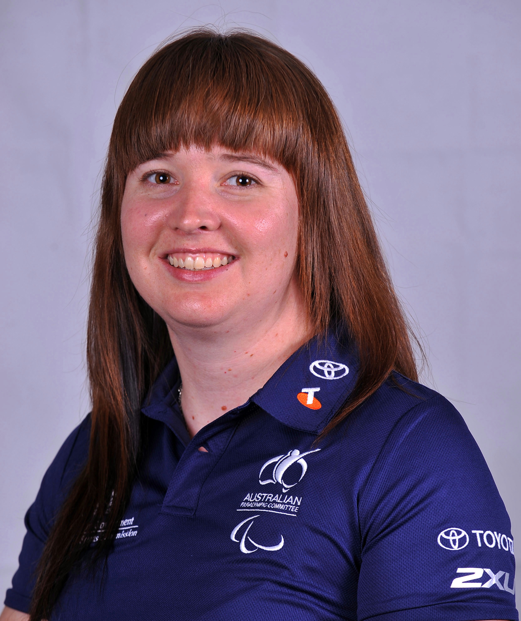 Portrait of Australian athlete Angie Ballard, 2012 Australian Paralympic (shadow) Team athlete